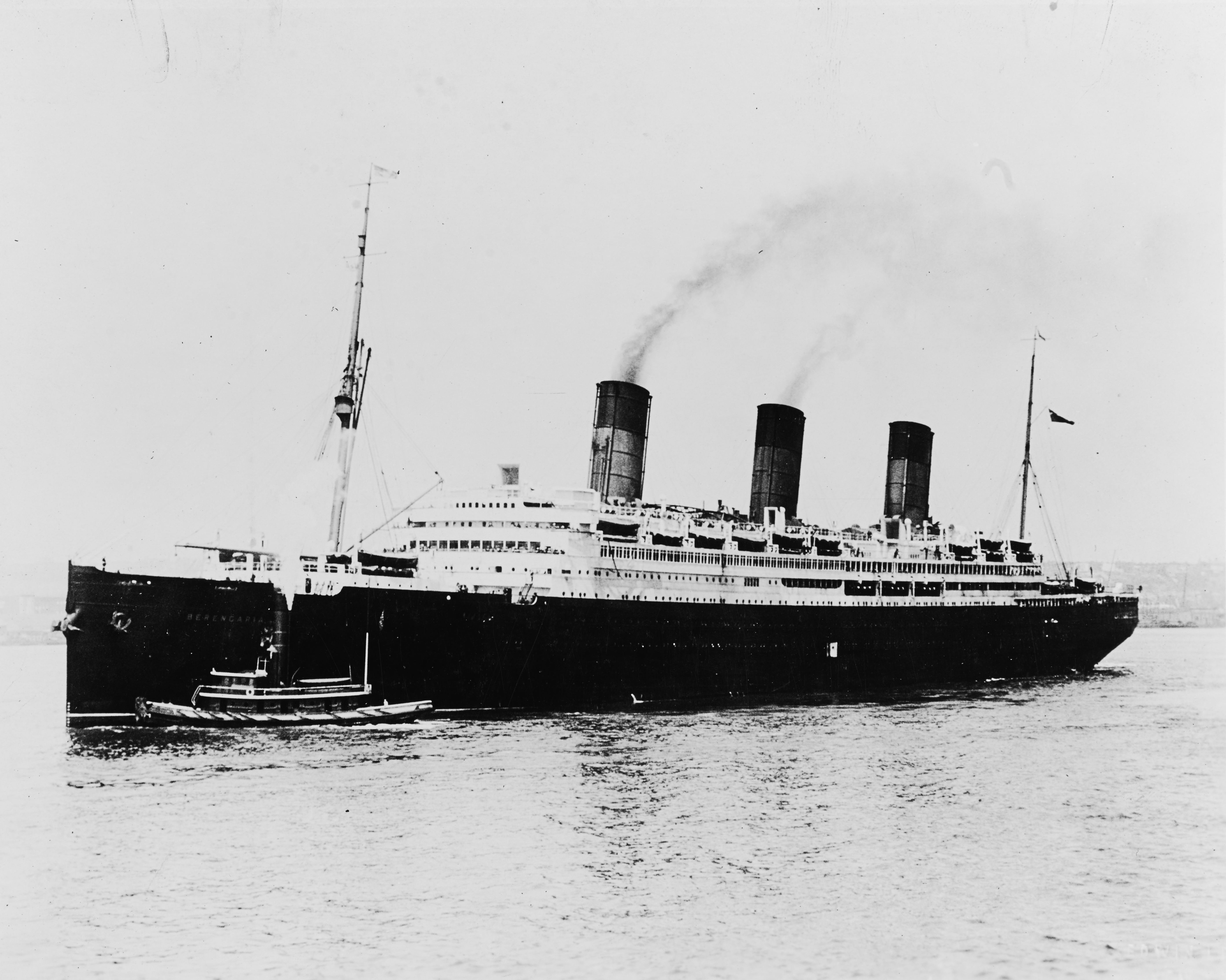 British liner Berengaria in harbor